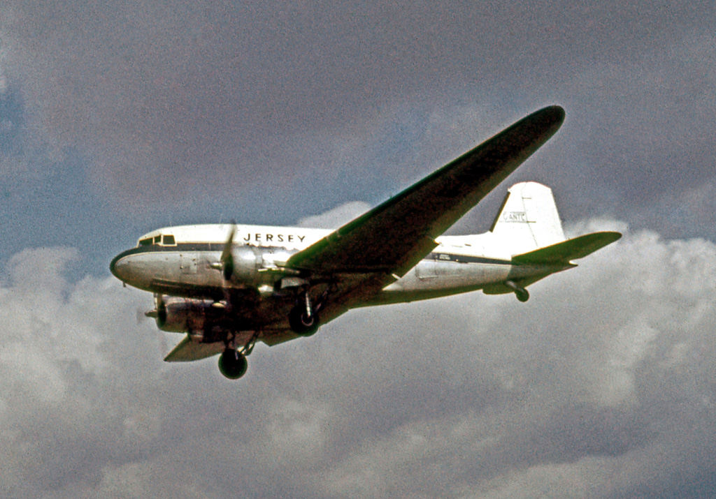 Douglas C-47B Dakota 6 G-ANTC of Jersey Airlines landing at Manchester Ringway Airport in 1962